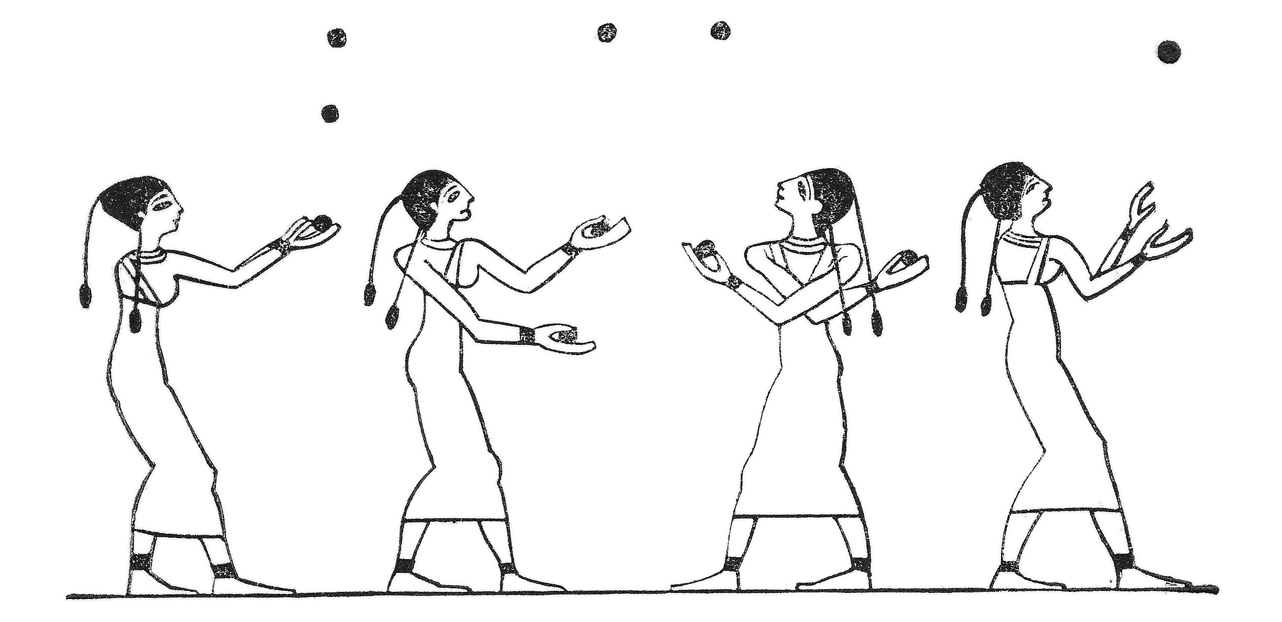 Illustration from "Illustrerad verldshistoria utgifven av E. Wallis. band I": Egyptian women, playing with ball.